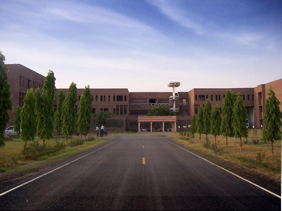 Source - own work